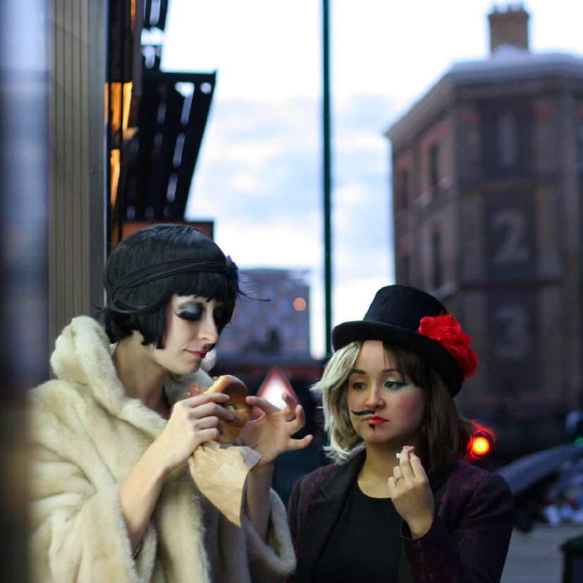 EastEnd Cabaret on Brick Lane